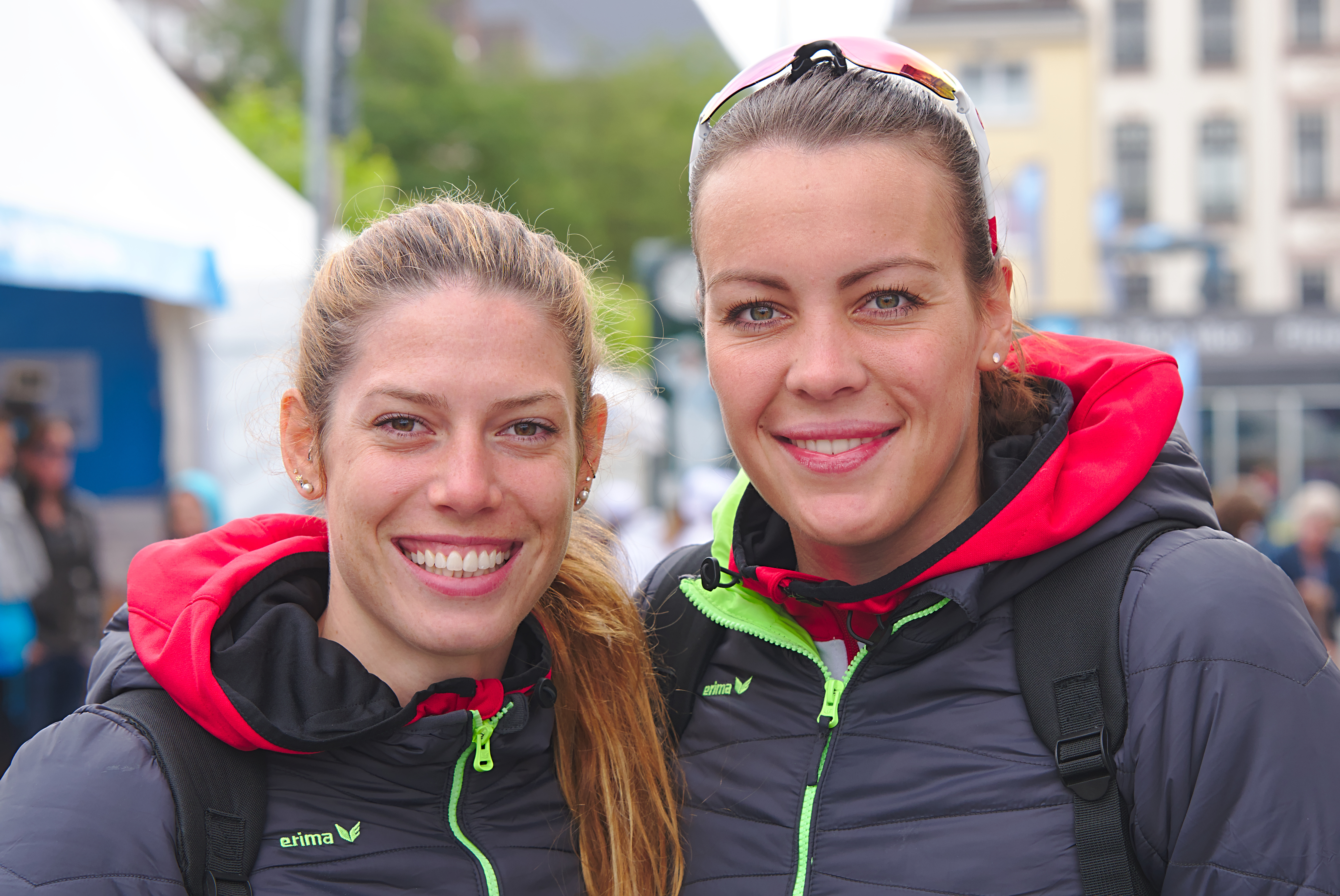 The German beach volleyball team Sanda Ferger (left) und Christine Aulenbrock (right) at the Techniker Beach Tour tournament 2018 in Düsseldorf, Germany